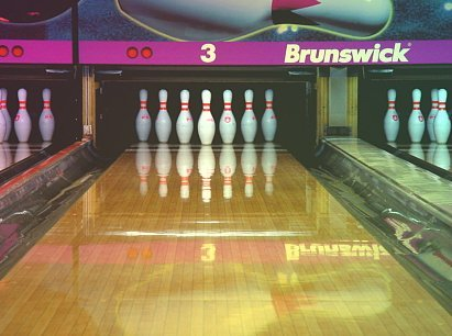 Bowling pathway